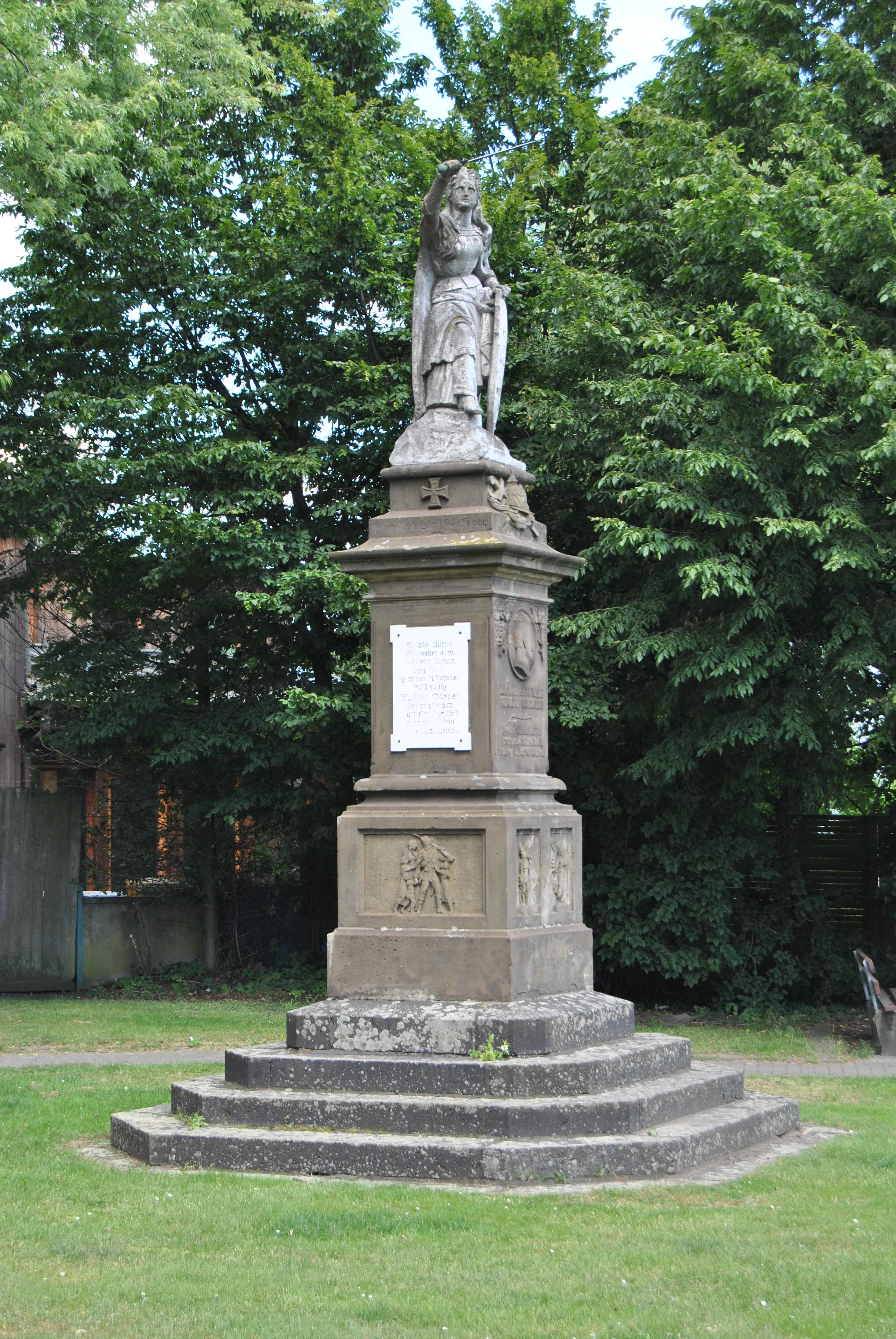 Duisburg (North Rhine-Westphalia, Germany) – borough Homberg/Ruhrort/Baerl, district Homberg – Germania War Memorial This image shows a heritage building in Germany, located in the North Rhine-Westphalian city Duisburg (no. 437). This photograph was taken with a Nikon D3000.